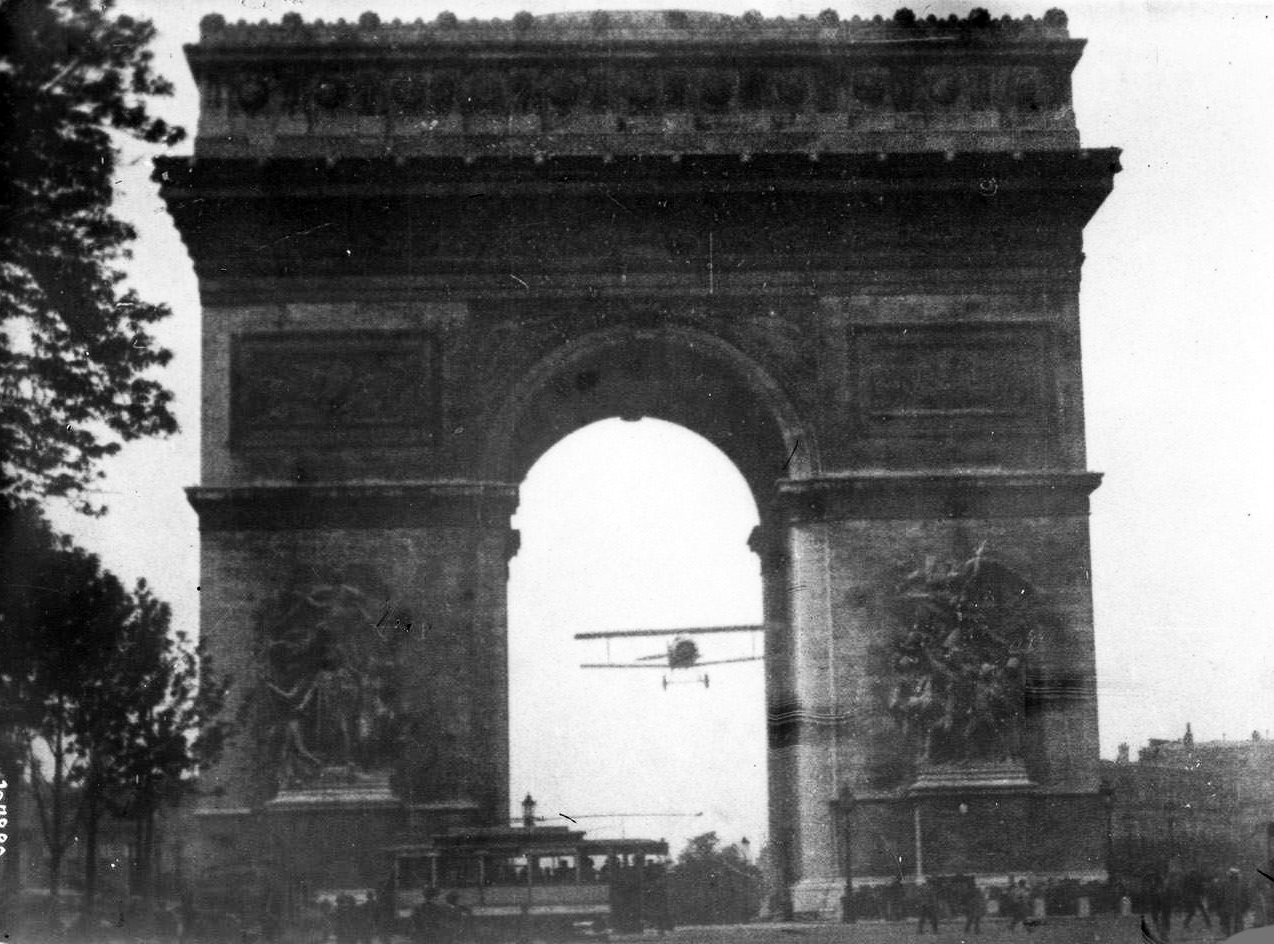 Charles Godefroy flies through Arc de Triomphe